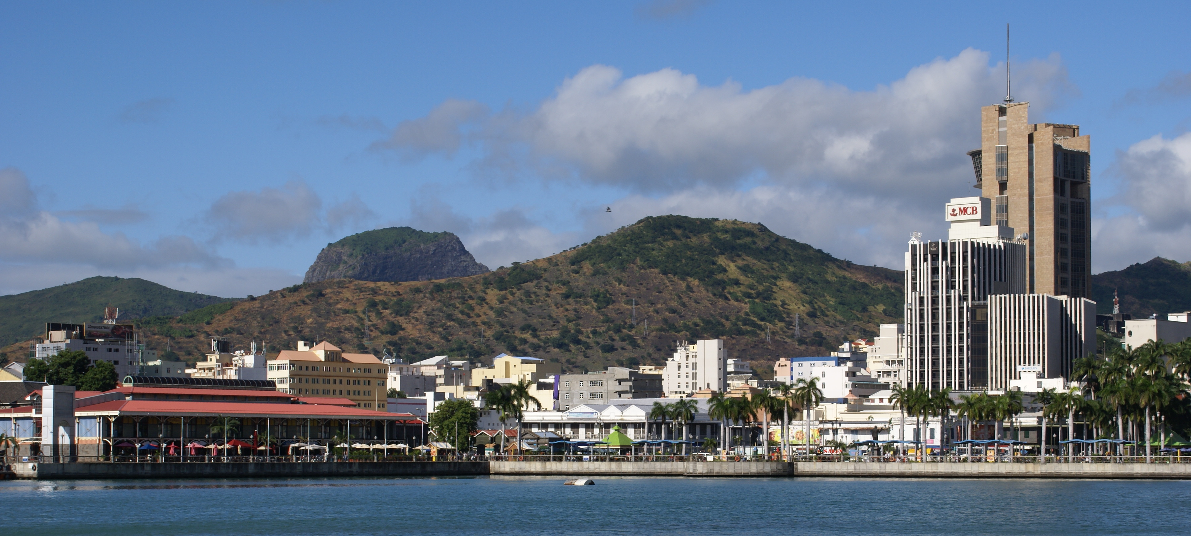 Port-Louis (Mauritius) waterfront